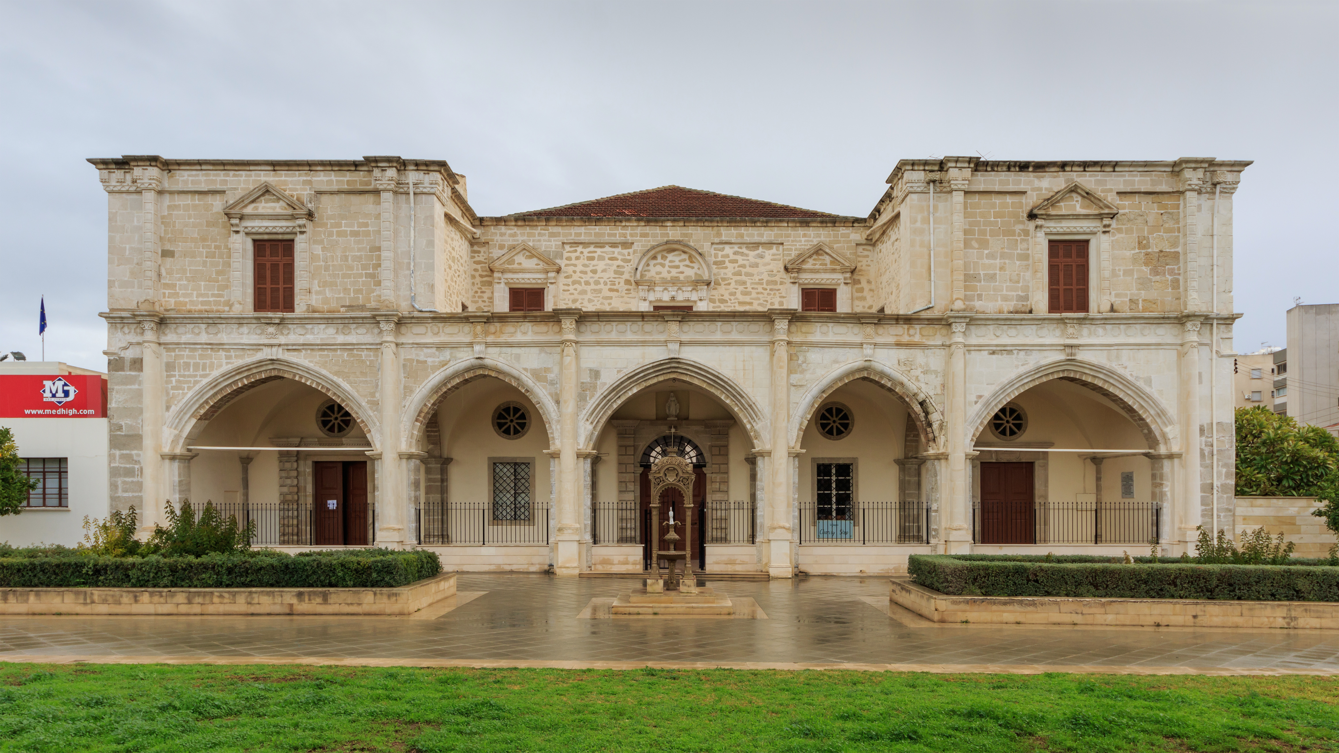 Former St. Joseph's Convent in Larnaca, Cyprus